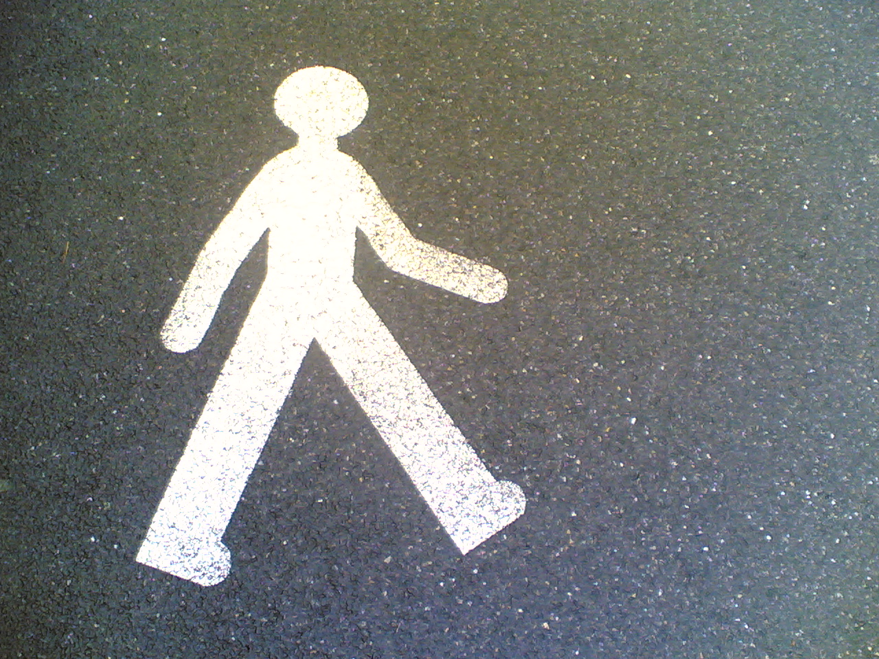 Author Cme, walking in Swiss / Caminando en Suiza